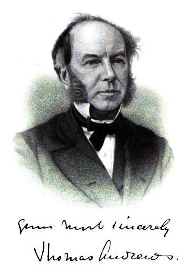 Picture of Thomas Andrews, the Irish thermodynamicist